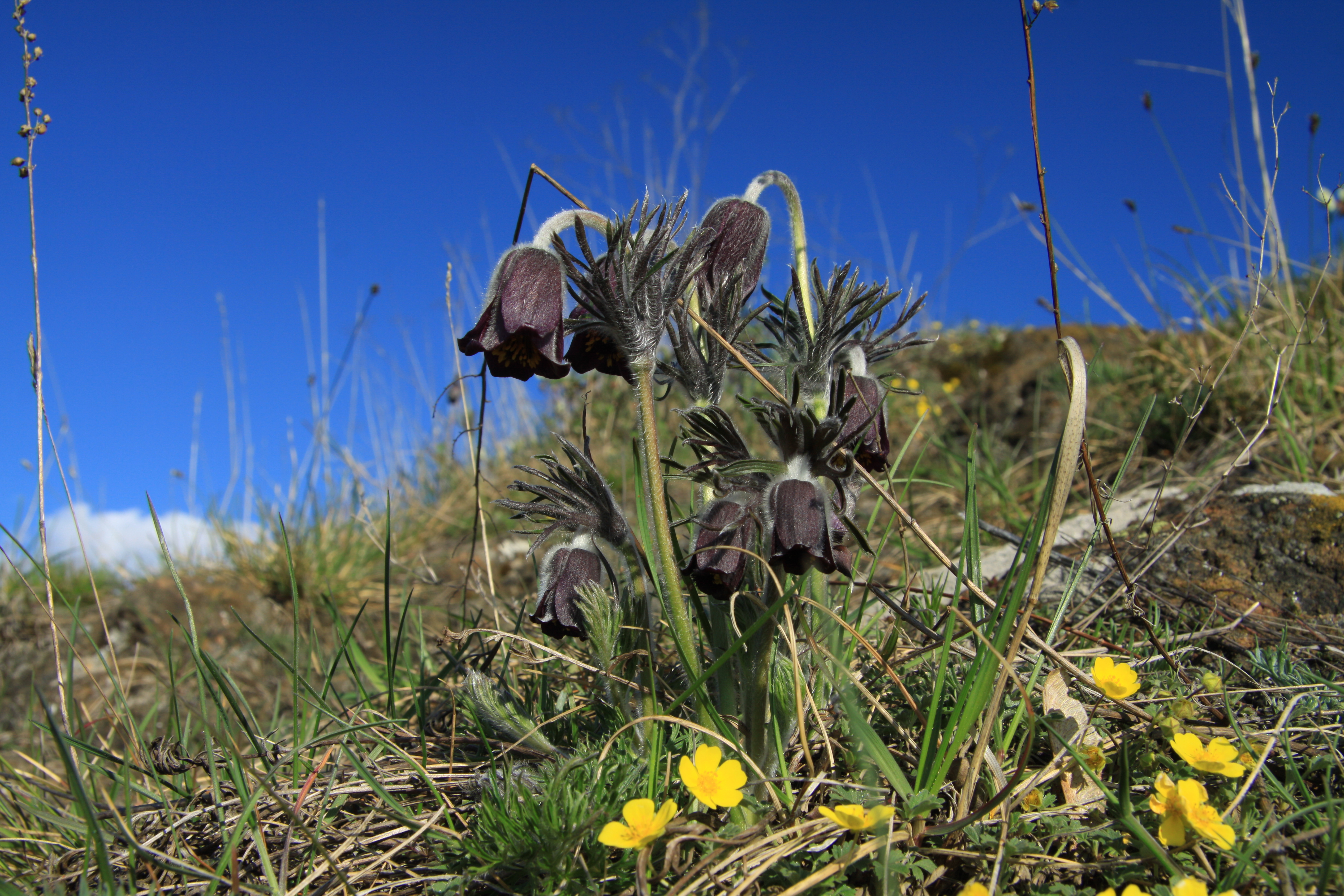 Pulsatilla pratensis in natural monuent Kalvárie v Motole in Prague, Czech Republic